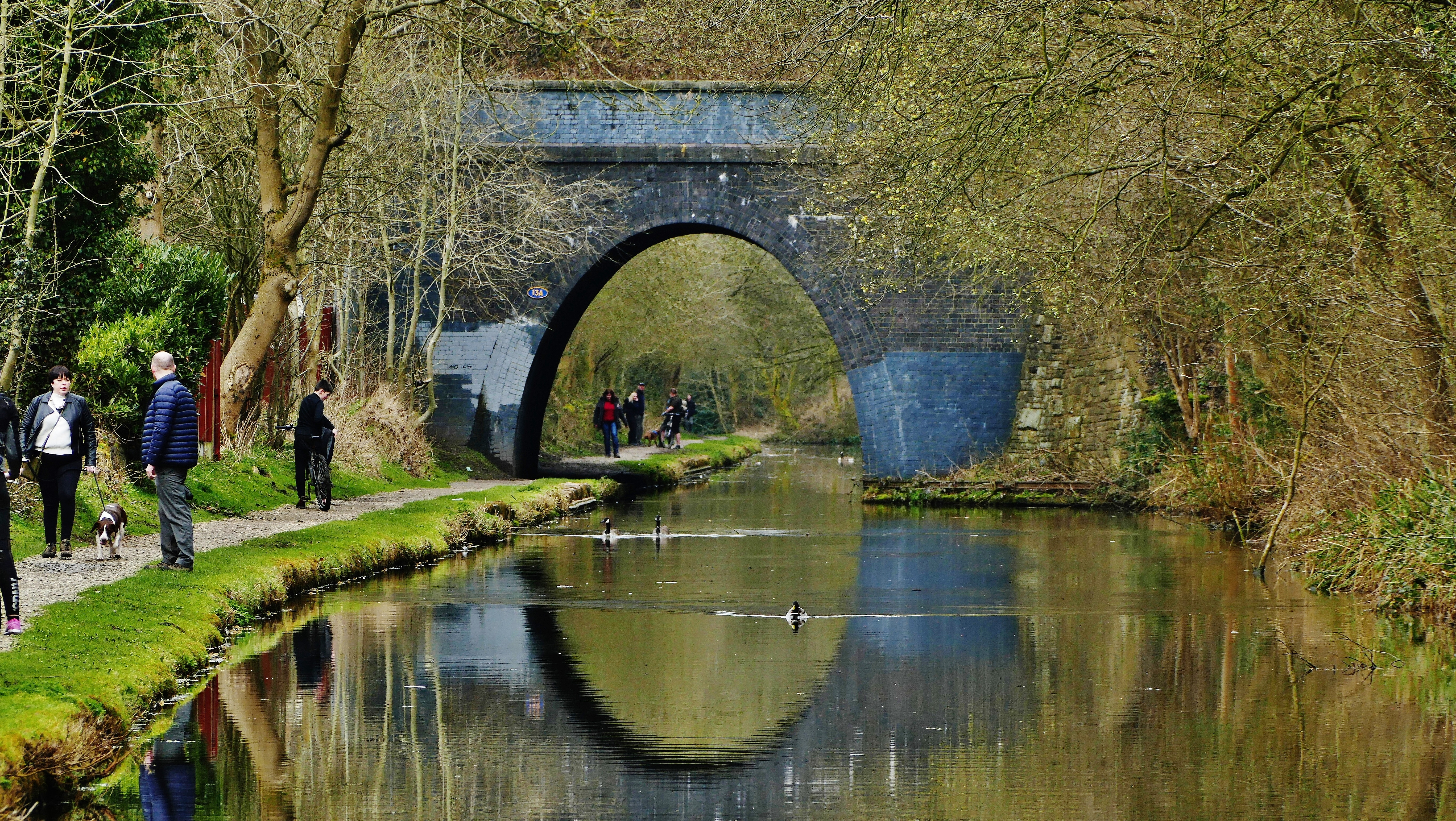 Scenic canal view - Romiley